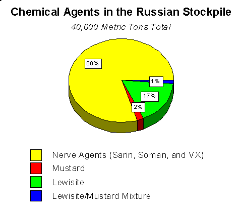 Geometric data representation.